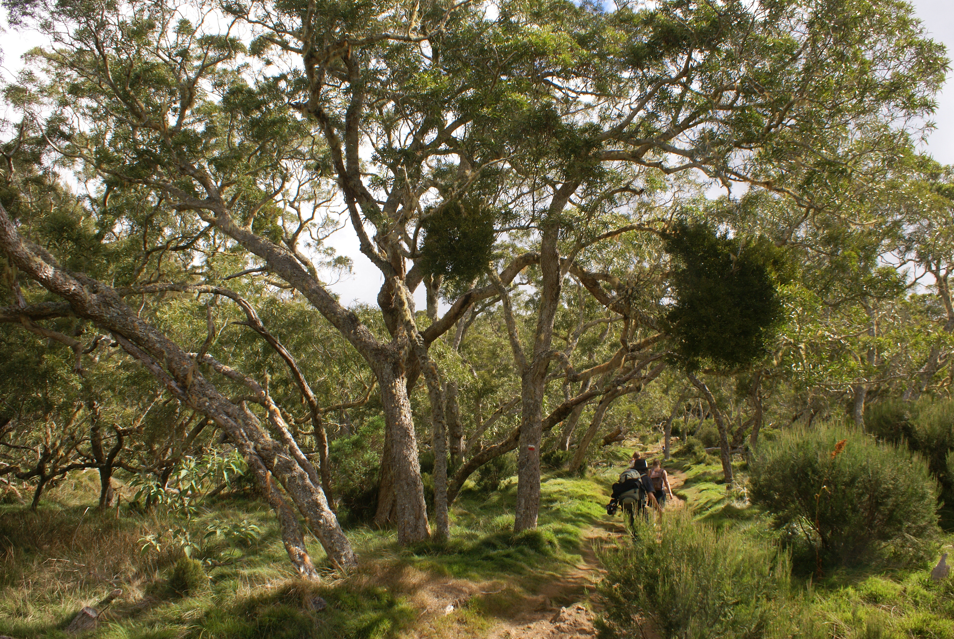 walking under the tamarin trees in Mafate